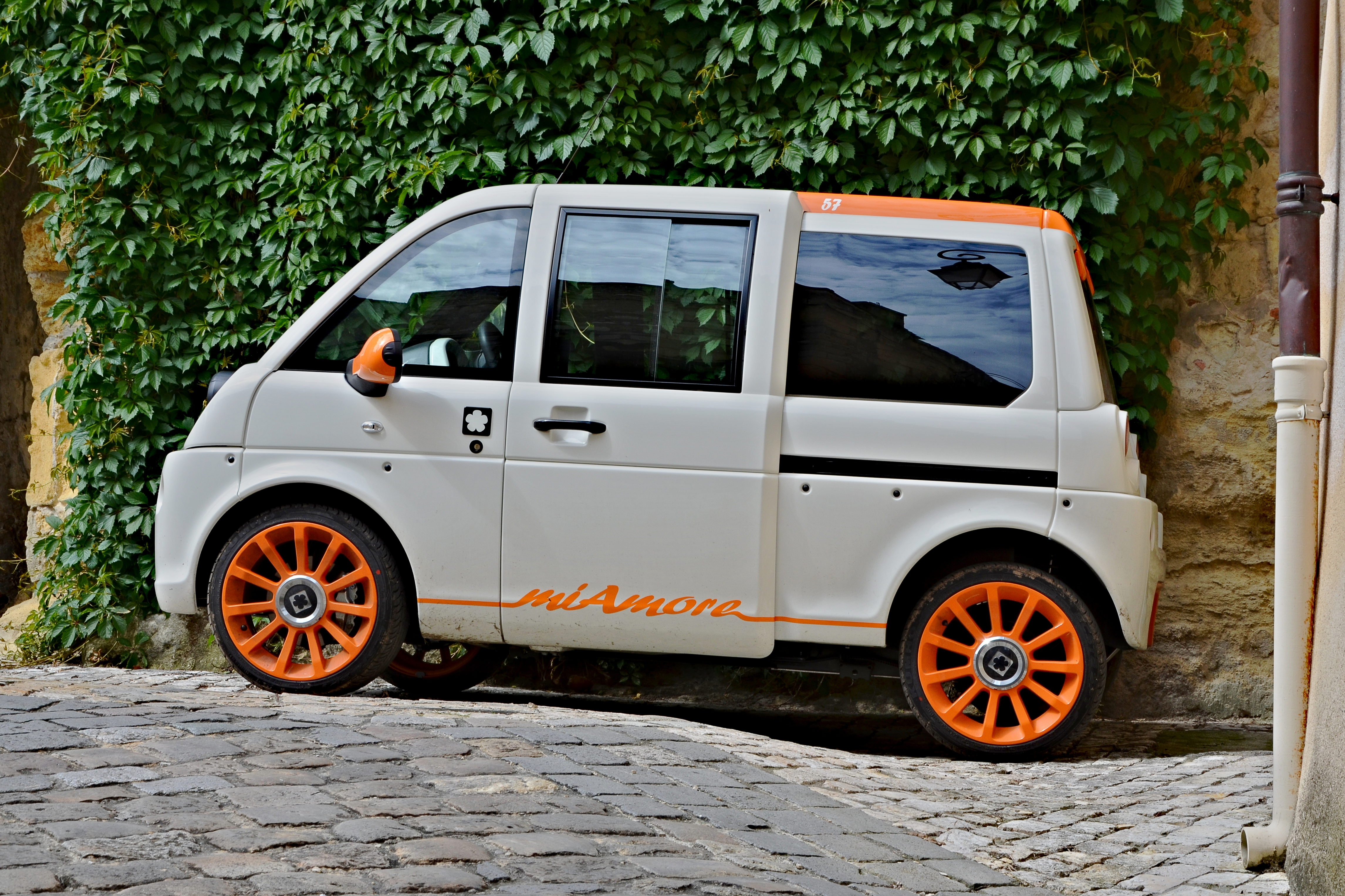 Electric car mia L ("miAmore"), made in Cerizay, seen in Saint-Émilion, Gironde, France.